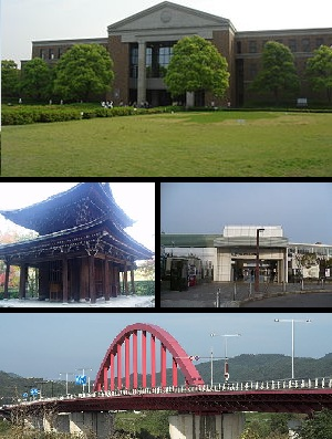 Kyotanabe Kyoto montage